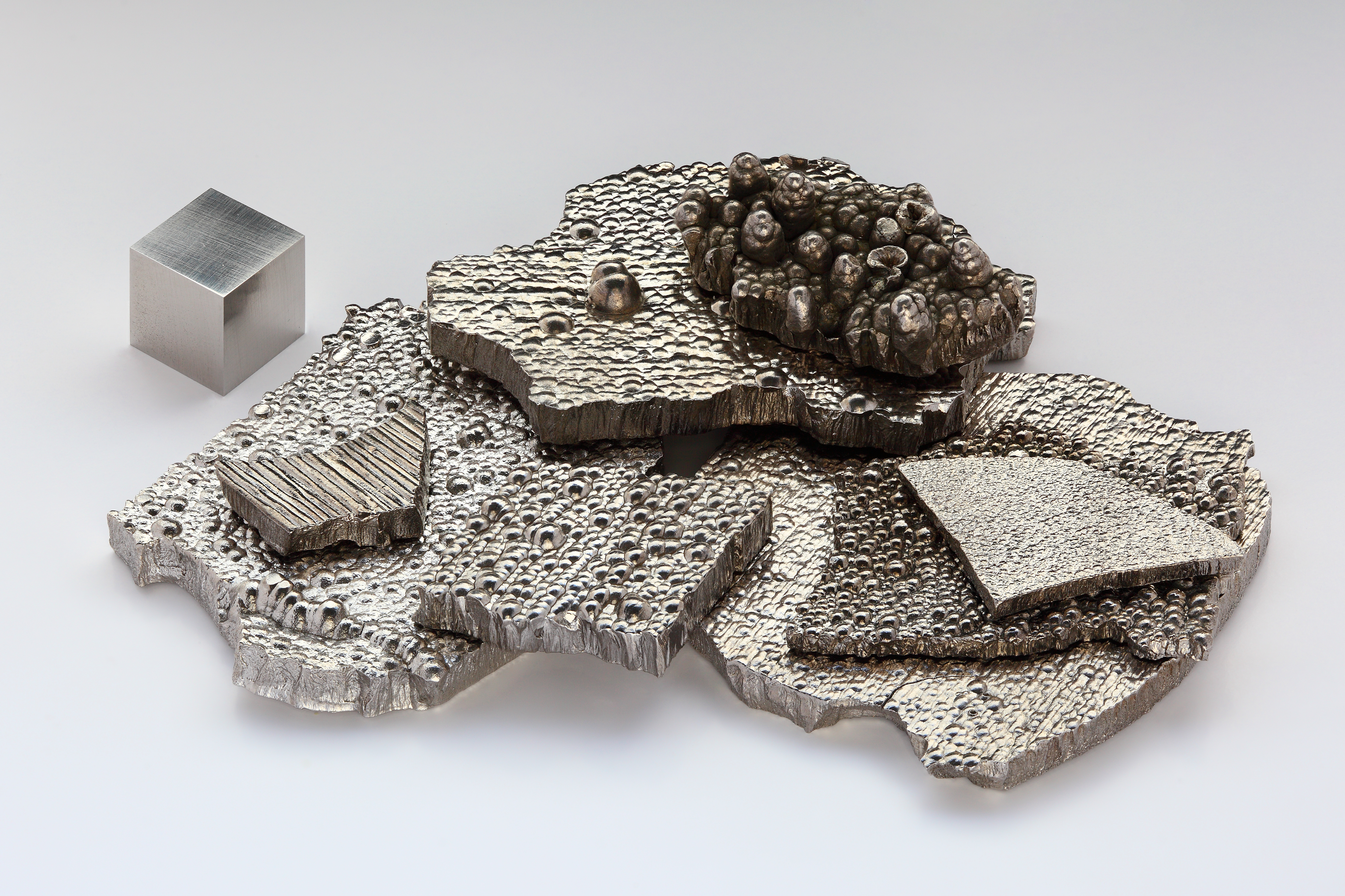 Pure (99.9 %) cobalt chips, electrolytically refined, as well as a high purity (99.8 % = 2N8) 1 cm3 cobalt cube for comparison.